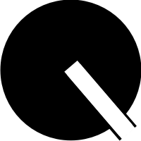 III. Panzerkorps unit marking during Unternehmen "Zitadelle".